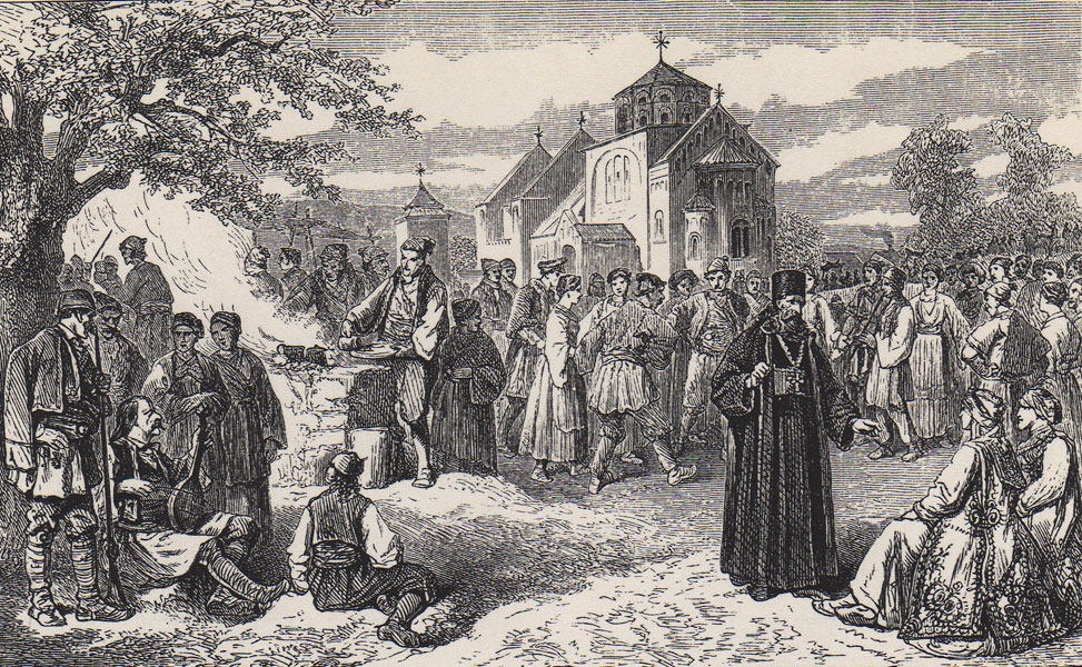 Church assembly in liberated Serbia. engraving. 19th century. Српски (ћирилица): Црквени сабор у ослобођеној Србији. бакрорез. 19. Век.